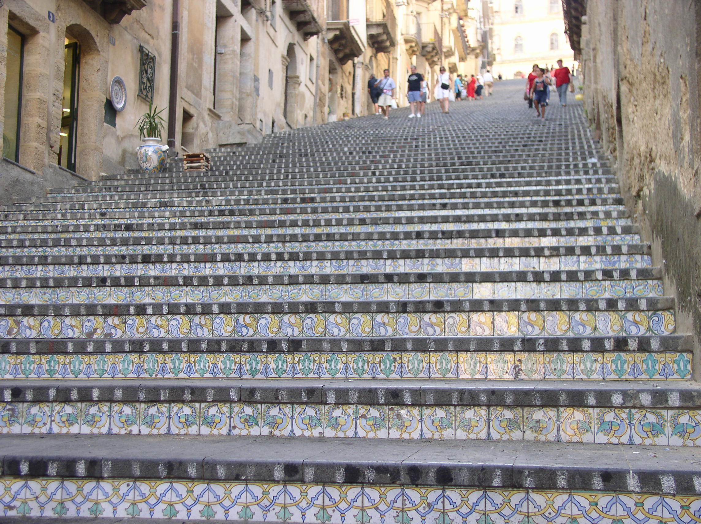 Scalinata di Santa Maria del Monte (Staircase of Saint Maria of the Mountain), which is an outdoor public staircase in Caltagirone, Italy that is noted particularly for its tiling. In 'typical' local ceramica di Caltagirone tiles.